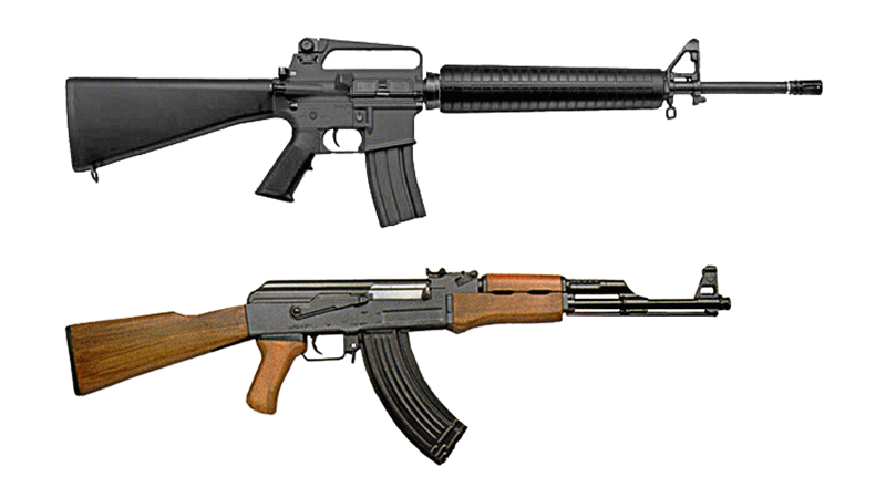 Comparison of the M16 and AK-47 assault rifles. Created in Photoshop CS.